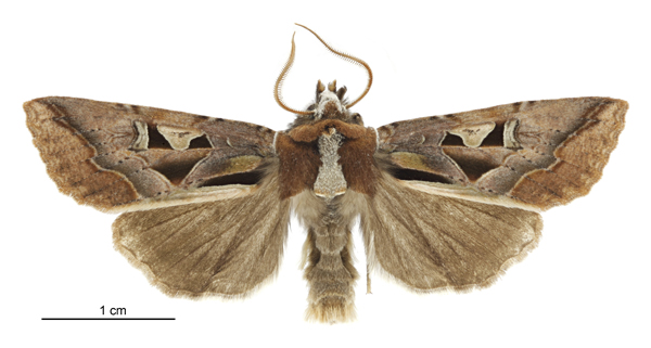 Male specimen of Meterana grandiosa photographed by Birgit E. Rhode, Landcare Research New Zealand Ltd.